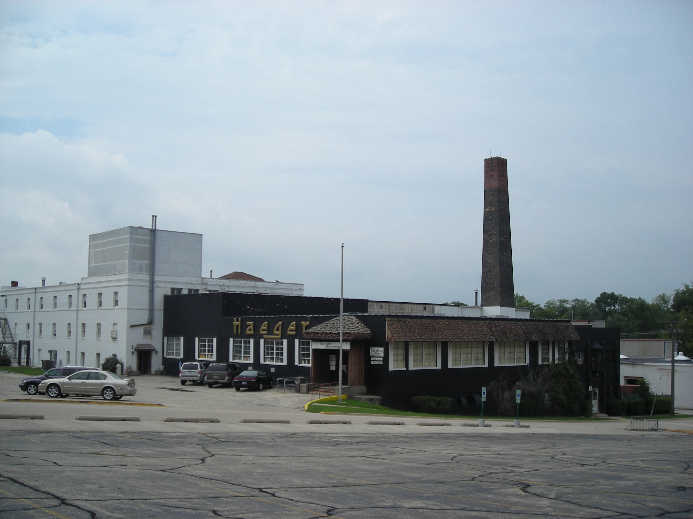 Haeger Pottery Plant. Dundee Township Historic District. National Register of Historic Places.